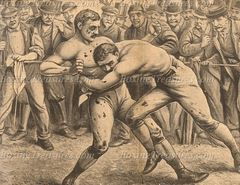 Black and white drawing of American boxer and heavyweight championship contender John Heenan holding adversary English champion Tom King, both barechested in a prize ring